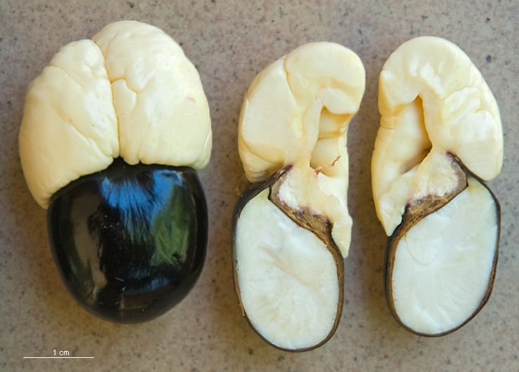 Ripe akee seeds with their arils, one whole (dorsal view), one in longitudinal section (Bobo-Dioulasso, Burkina Faso nov2013).